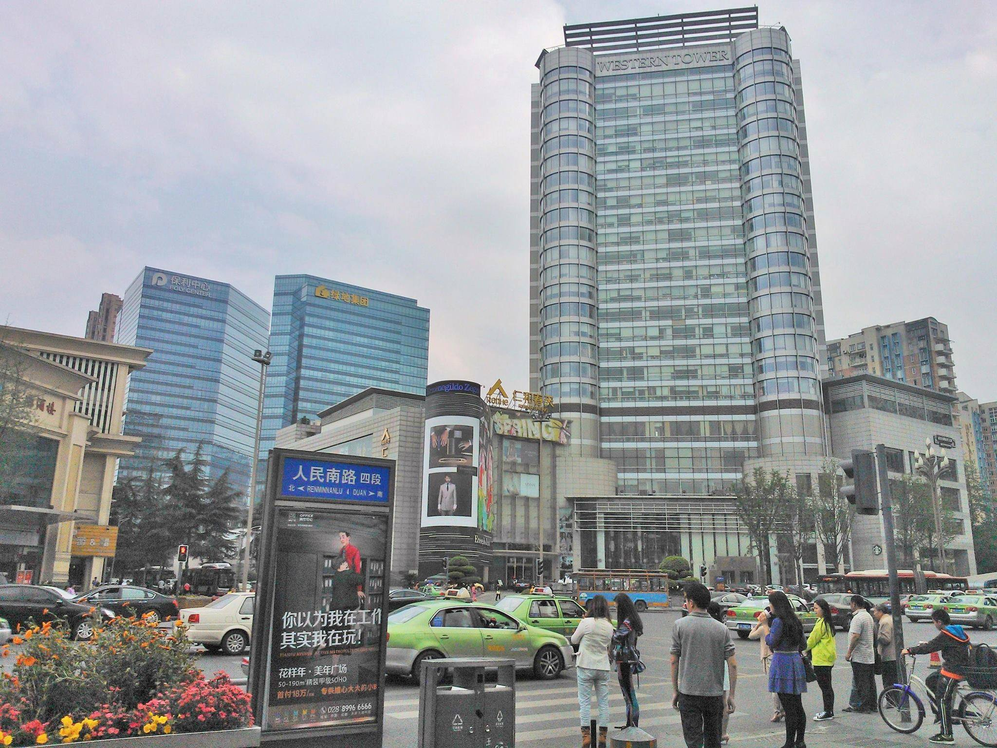 Nijia Qiao, South Renmin Road, Chengdu